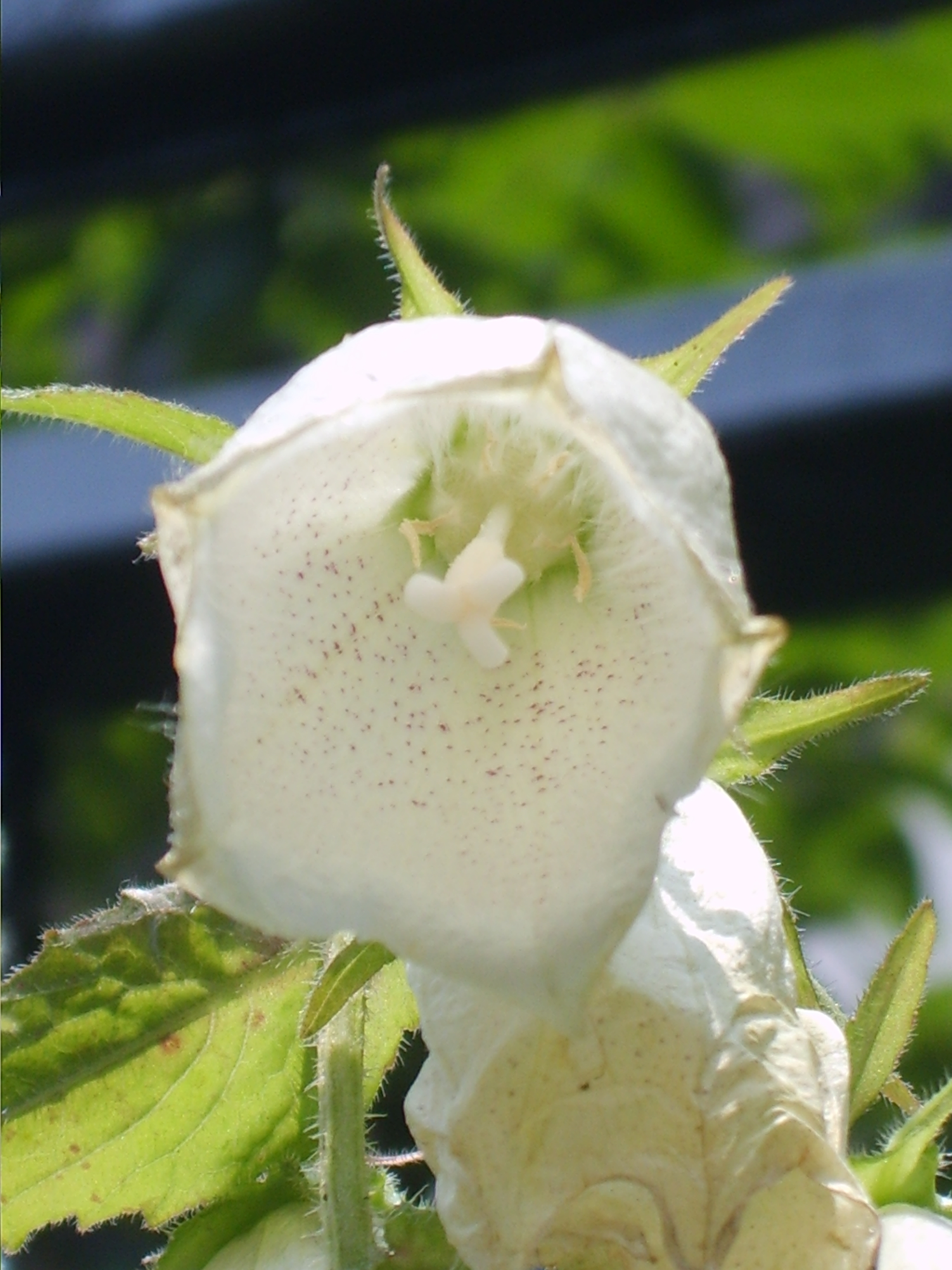 Campanula punctata in Bupyung, Korea